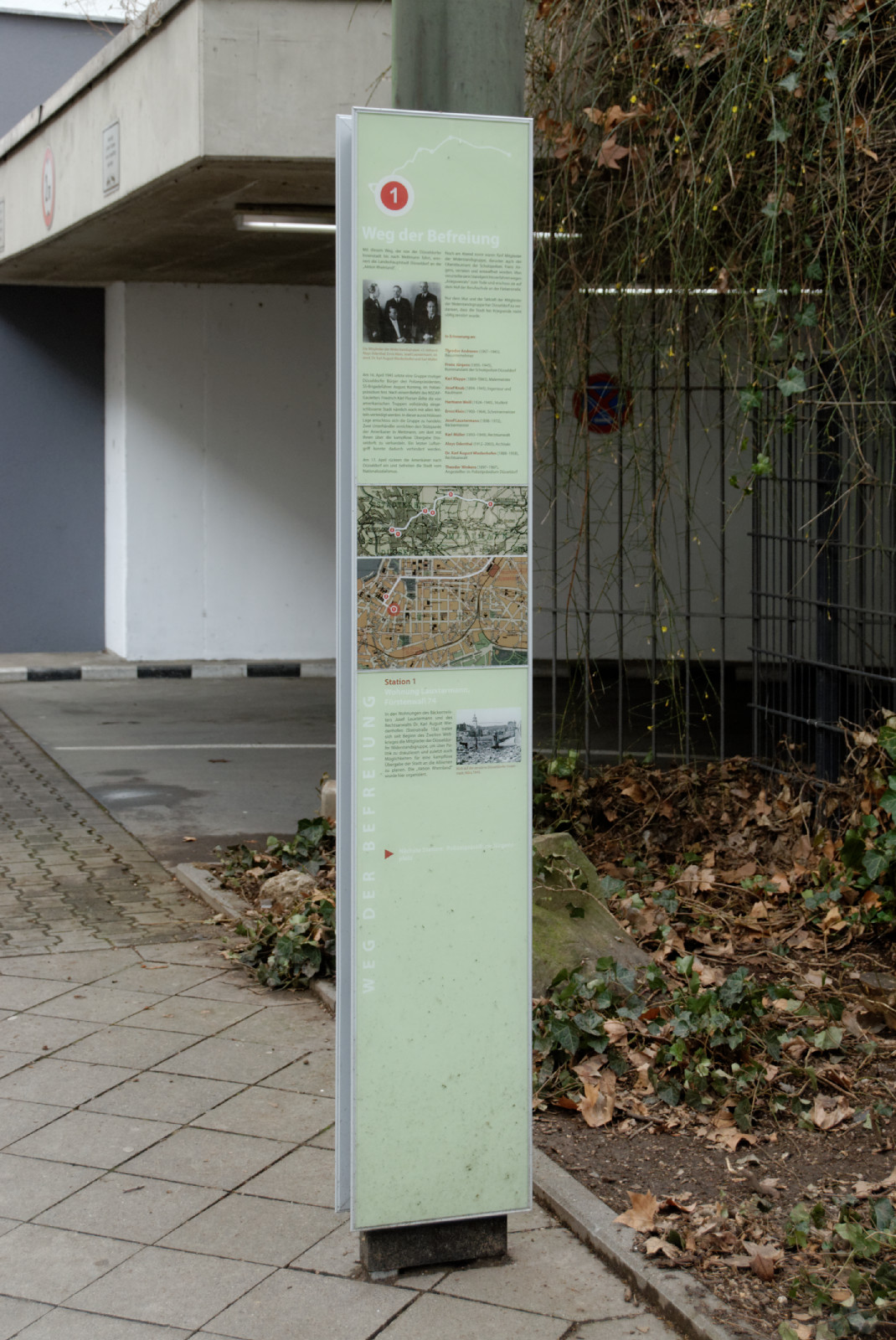 Station 1 of Road to Liberation, Fürstenwall in Düsseldorf-Unterbilk, Germany